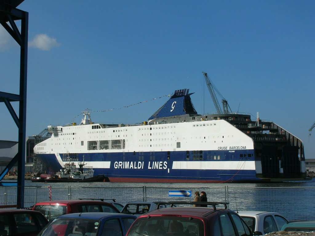 Nave traghetto Barcelona Cruise IMO number: 9351488 Date and Place of built: 2008 Italy Owners: Grimaldi Ferries BRT: 54919 DWT: 7400 LOA: 225.00m Breadth: 30.40m Main Engines: 75.398hp Lane Meters : 3050 Passengers: 2300 Service Speed: 27 Knots